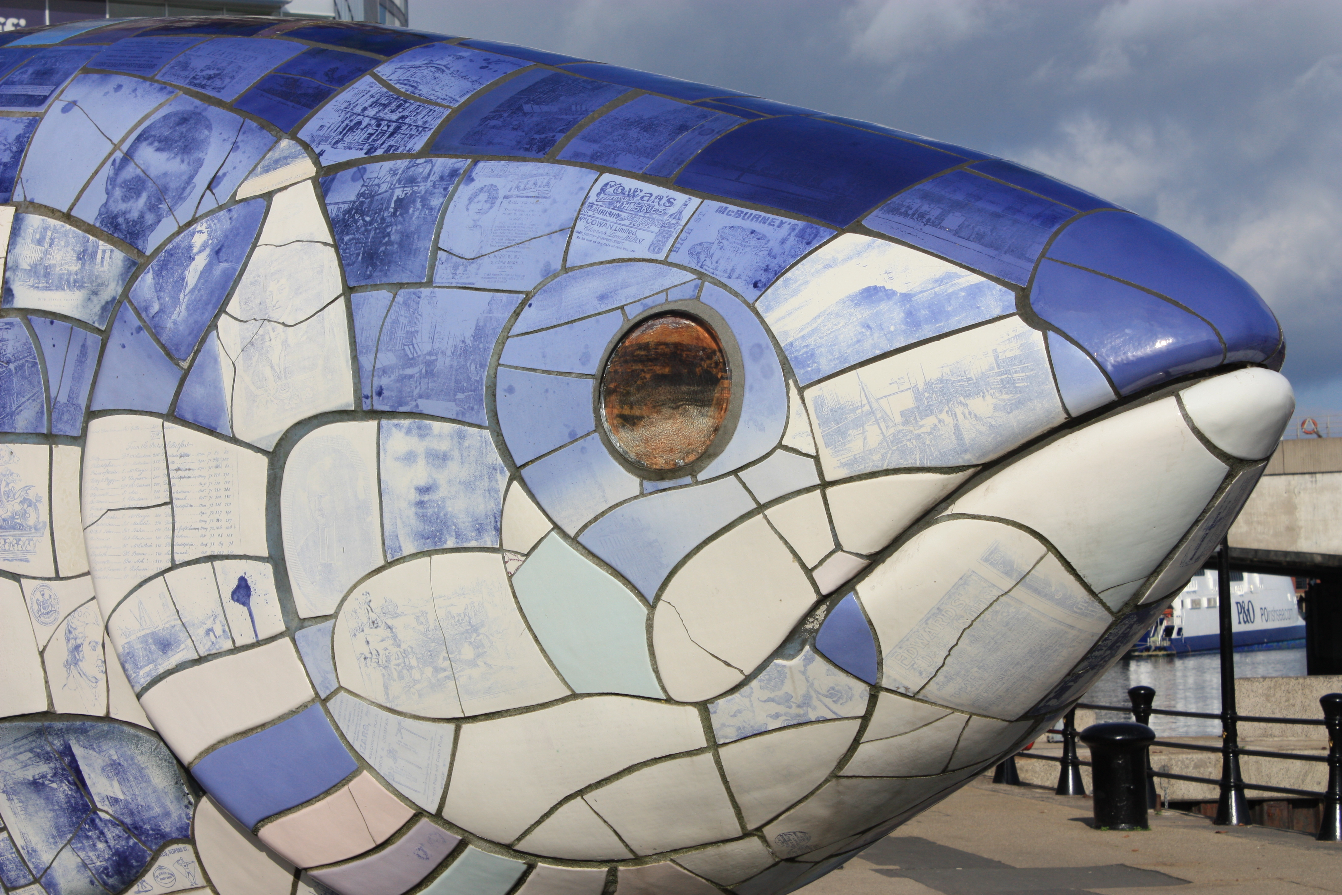 "The Big Fish" by John Kindness, Donegall Quay, Belfast, Northern Ireland, October 2009